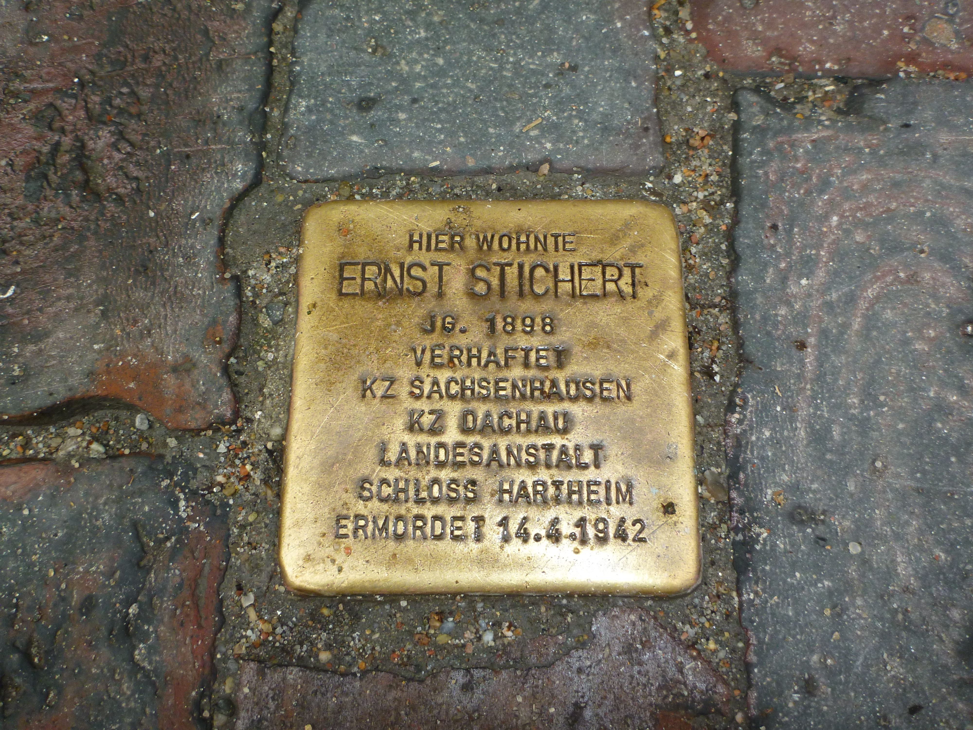 Stolperstein for Ernst_Stichert in the Bahnhofstraße in Neumünster